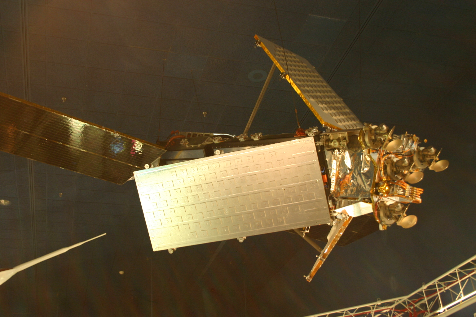 Iridium satellite, constructed entirely from spares and donated by Motorola to the National Air and Space Museum.